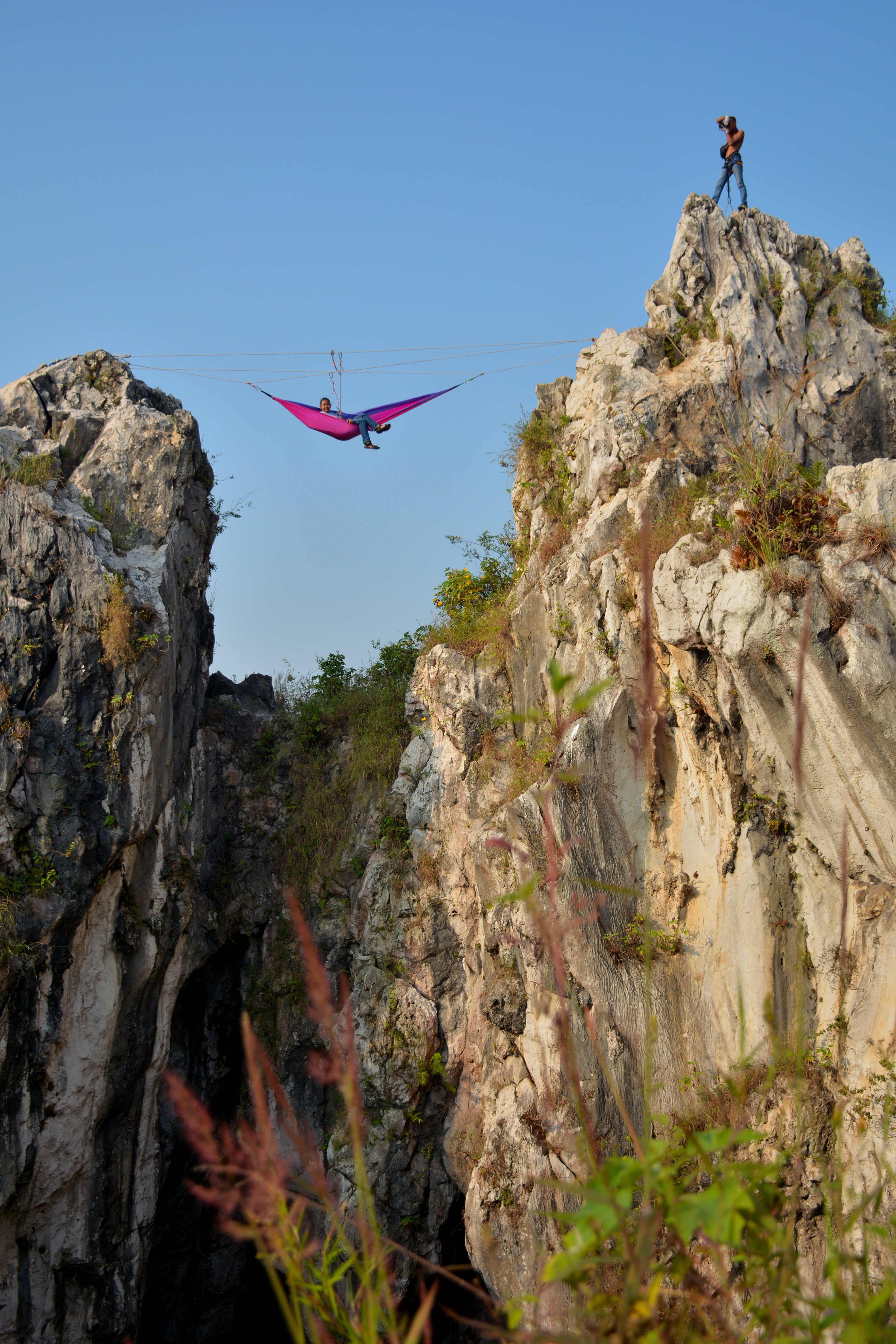 Citatah cliff is one of the locations for extreme activity such as hammocking or climbing in West Java